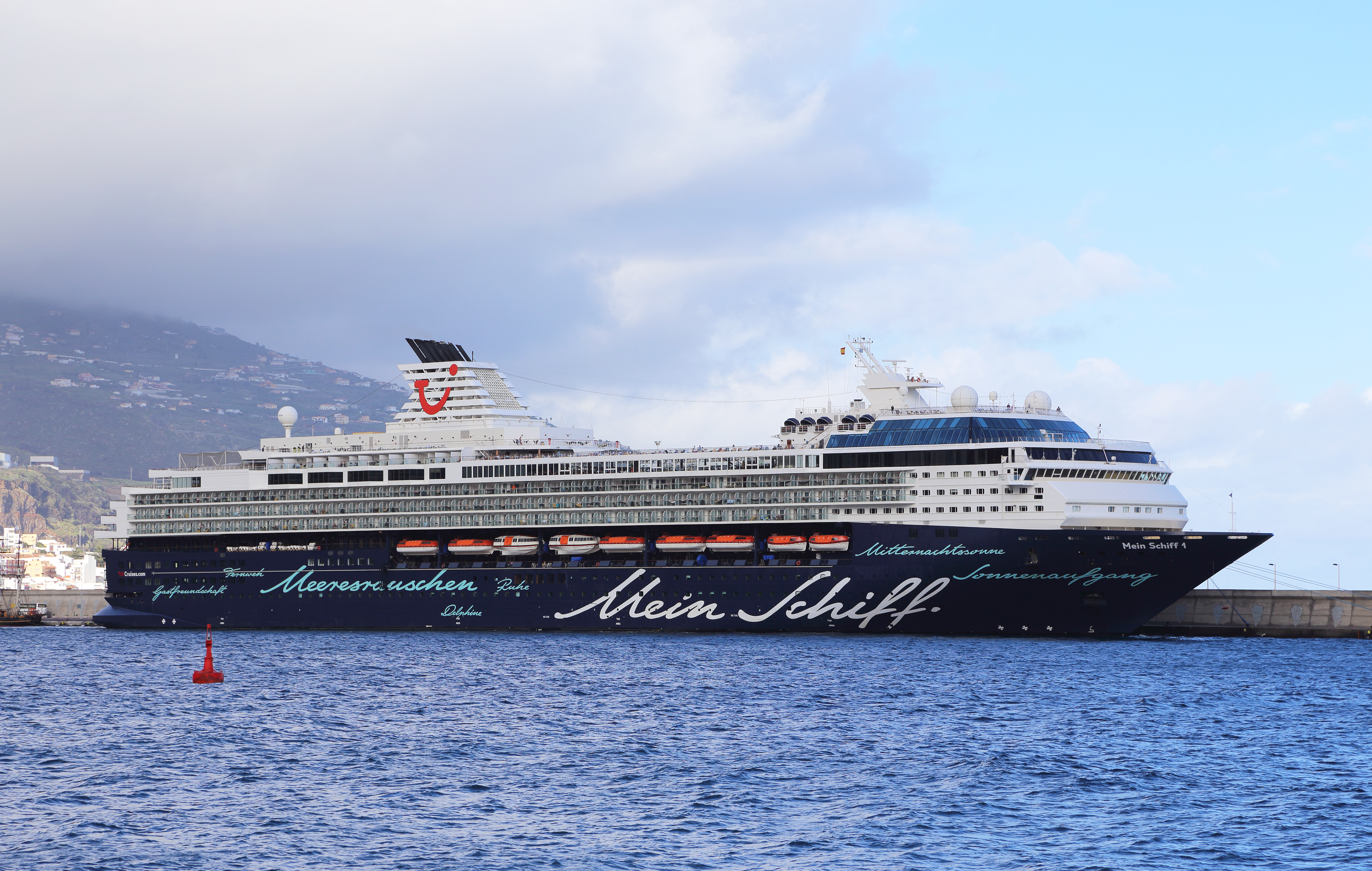 German cruise ship Mein Schiff 1 in the port of Santa Cruz de La Palma (Canary Islands)